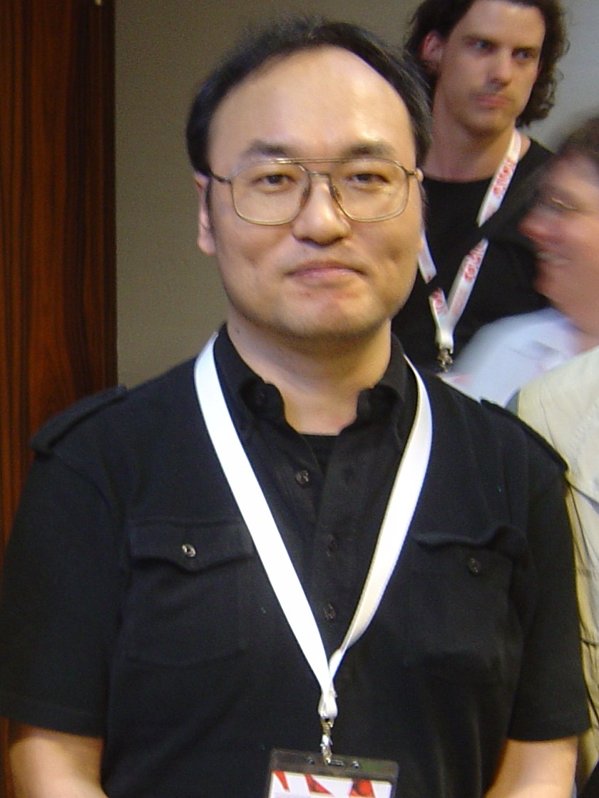 Gosho Aoyama, the creator of Case Closed (Detective Conan).